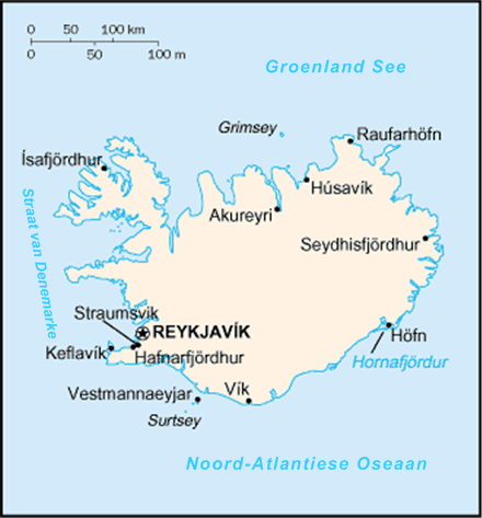 An Afrikaans map of Iceland.